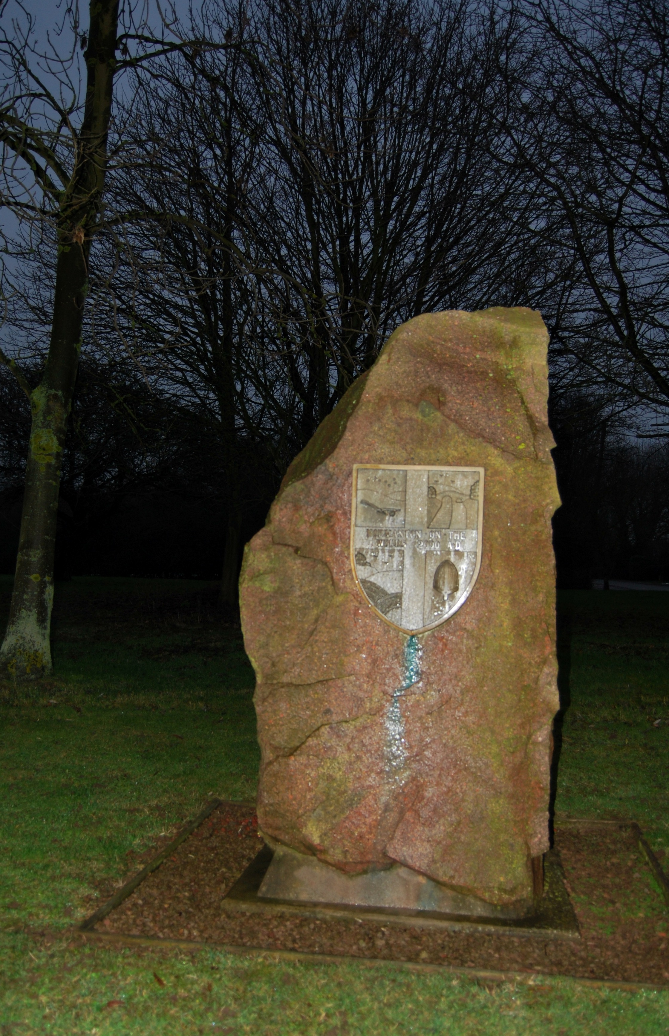 Place Marker Stone Normanton on the Wolds